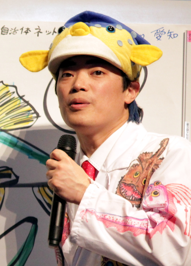 Masayuki Miyazawa, Visiting Associate Professor of the Office of Liaison and Cooperative Research, Tokyo University of Marine Science and Technology, gave a lecture at Toyohashi Arts Theatre PLAT in Toyohashi City, Aichi Prefecture on October 24, 2014.